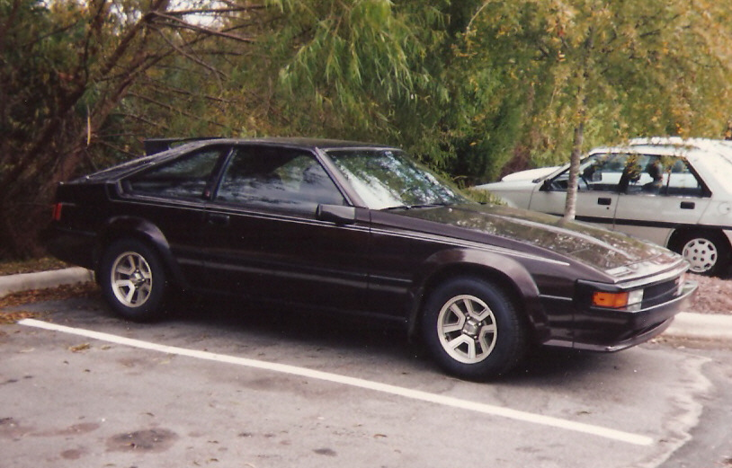 1984 Toyota Supra